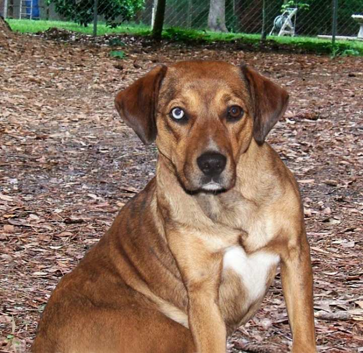 Catahoula_Bulldog_red_tan.jpg